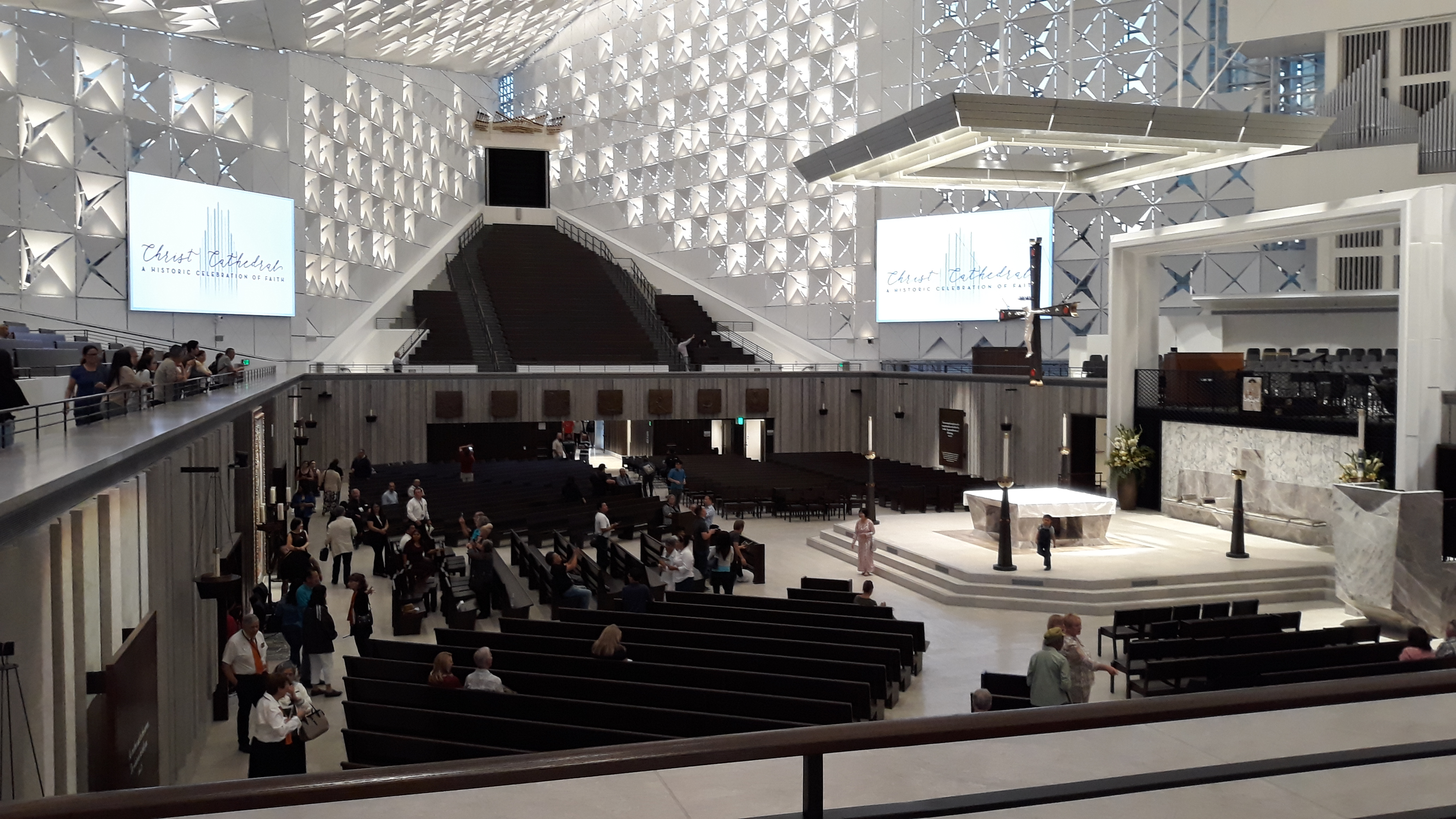 This file represents the Christ Cathedral following its dedication in July 17th, 2019.